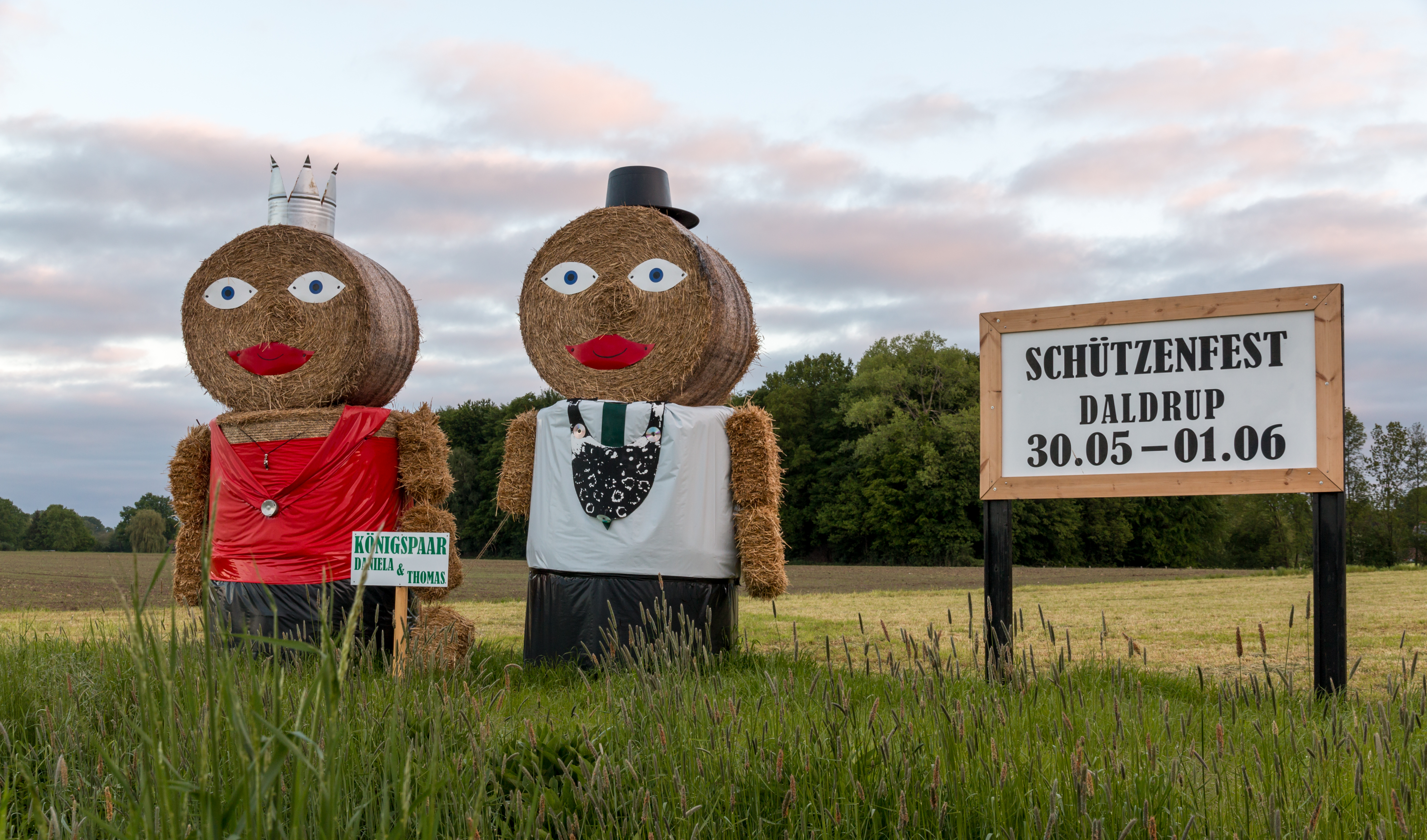 Straw sculptures in Daldrup, Kirchspiel, Dülmen, North Rhine-Westphalia, Germany